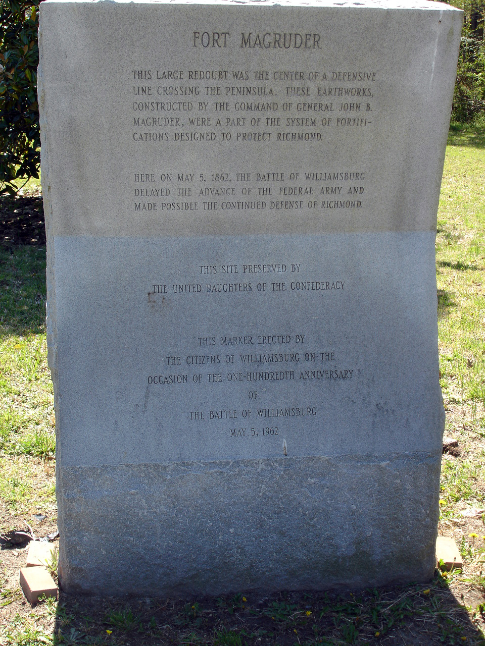 Photograph of Fort Magruder monument, taken by Hal Jespersen, April 2007.